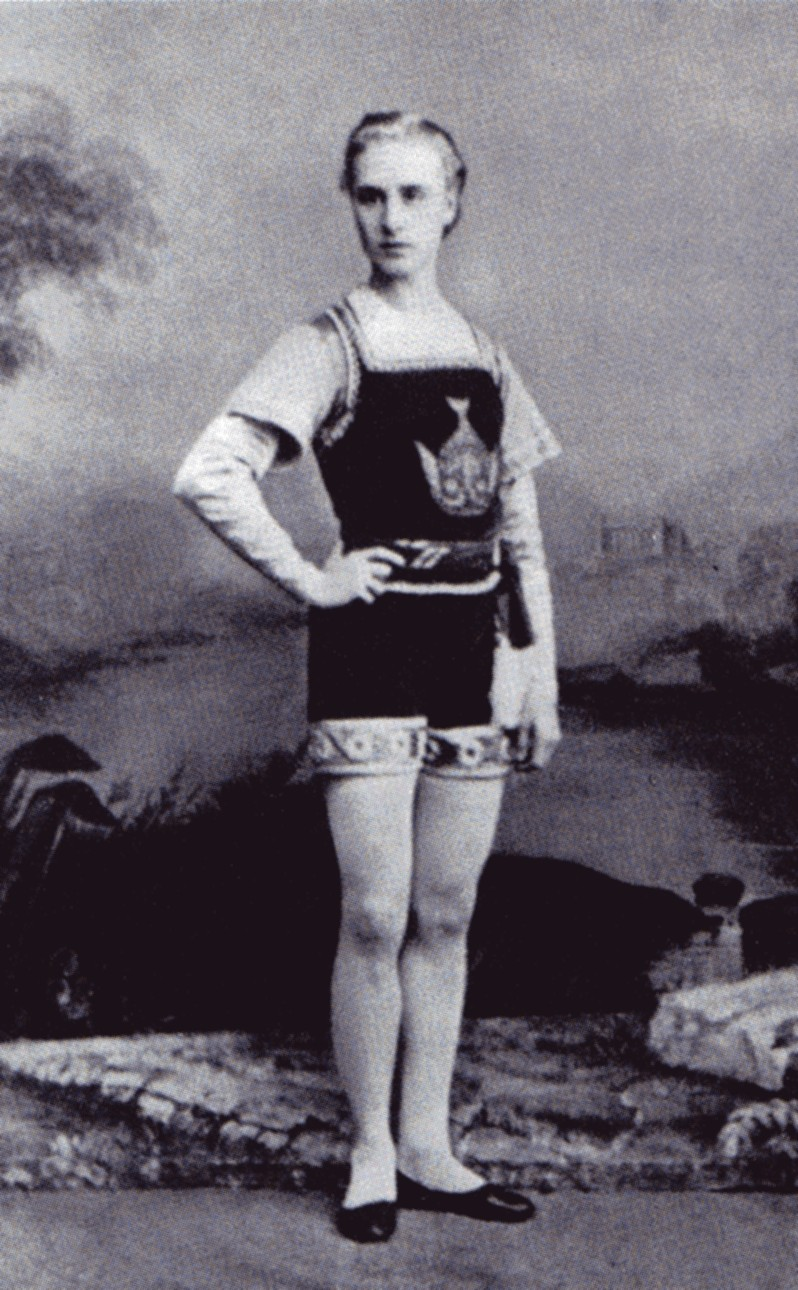 Photo by unknown of the dancer Pavel Gerdt in the ballet Le Poisson Doré. St. Petersburg, Russia, 1867. Photo comes from Mrlopez2681's collection and was scanned by Mrlopez2681, 07:36, 2 December 2006 (UTC)